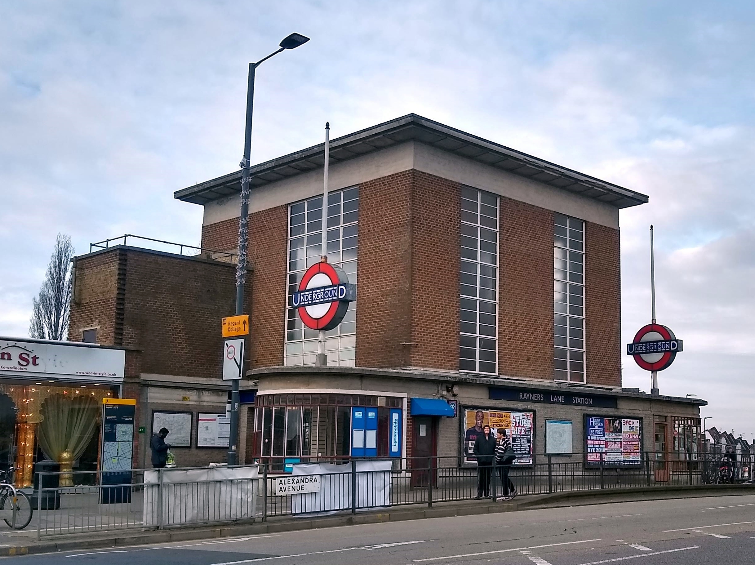 Rayners Lane Station 10 Jan 2019